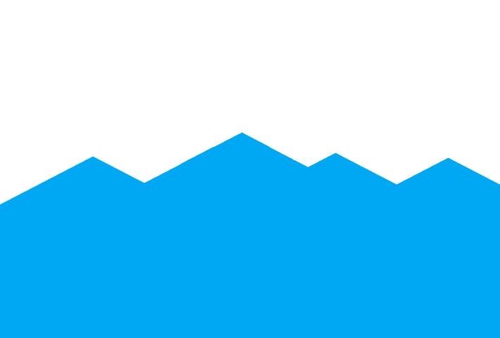 The 'rebel' flag of the Isle of Skye 1995-2020